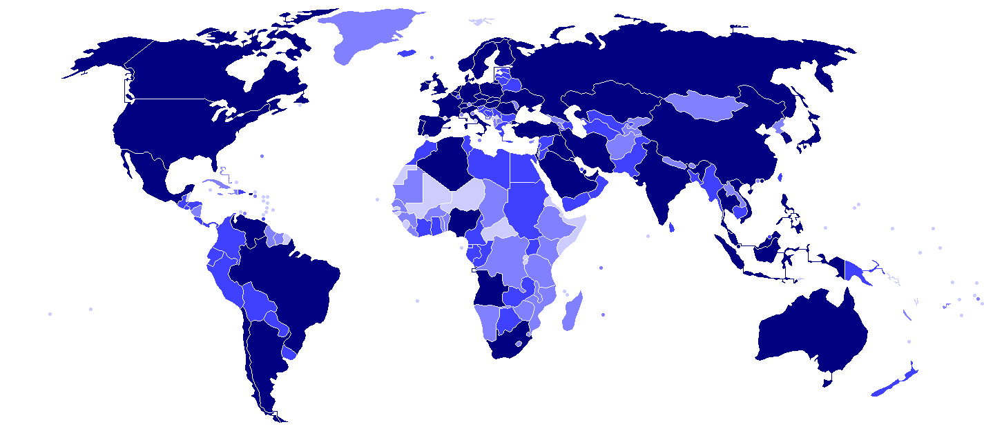 Editing borderline between Republics of Armenia and Azerbaijan to show Qarabag within the latter